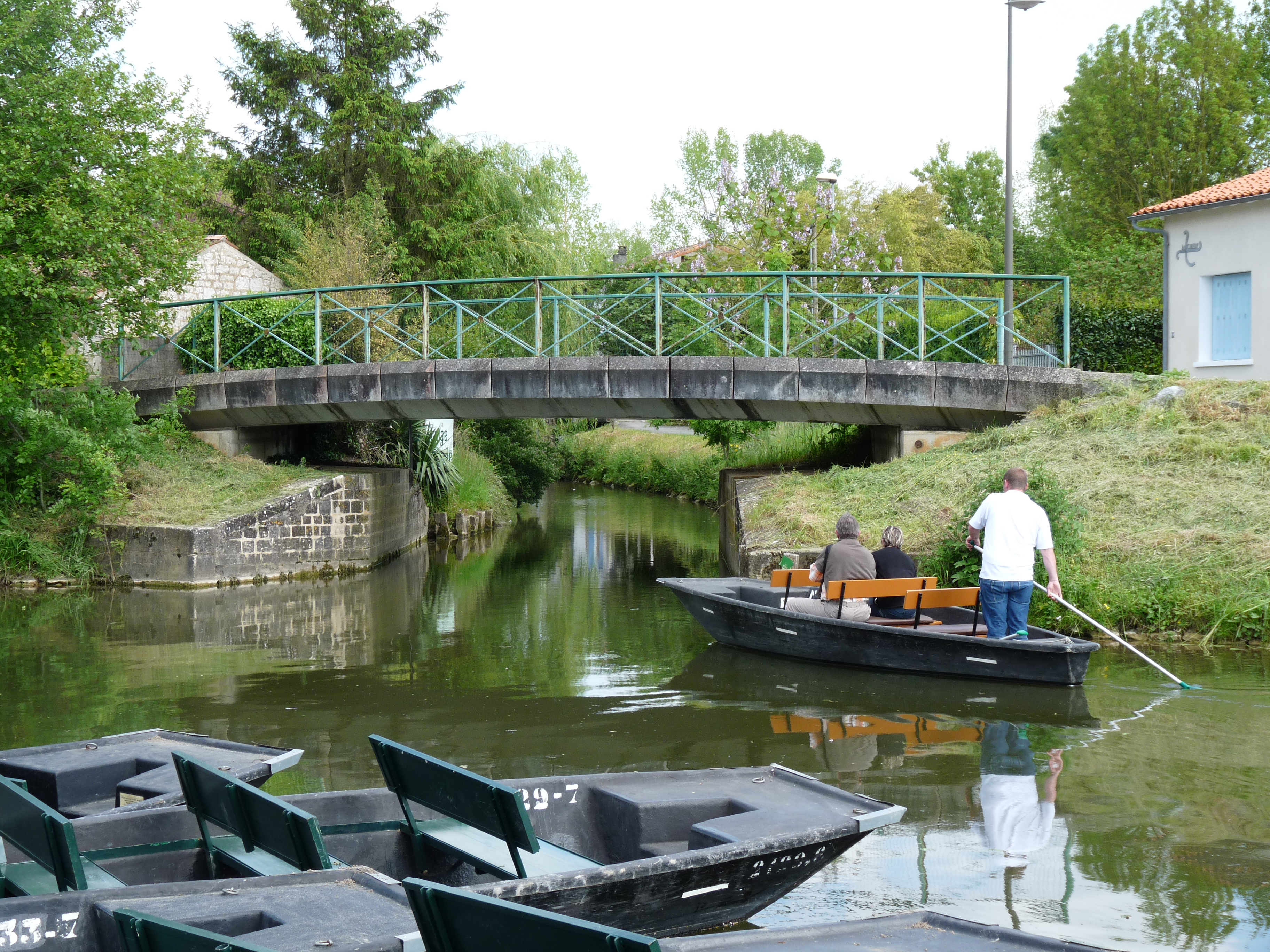 Rowing boats in Coulon (Deux-Sèvres)